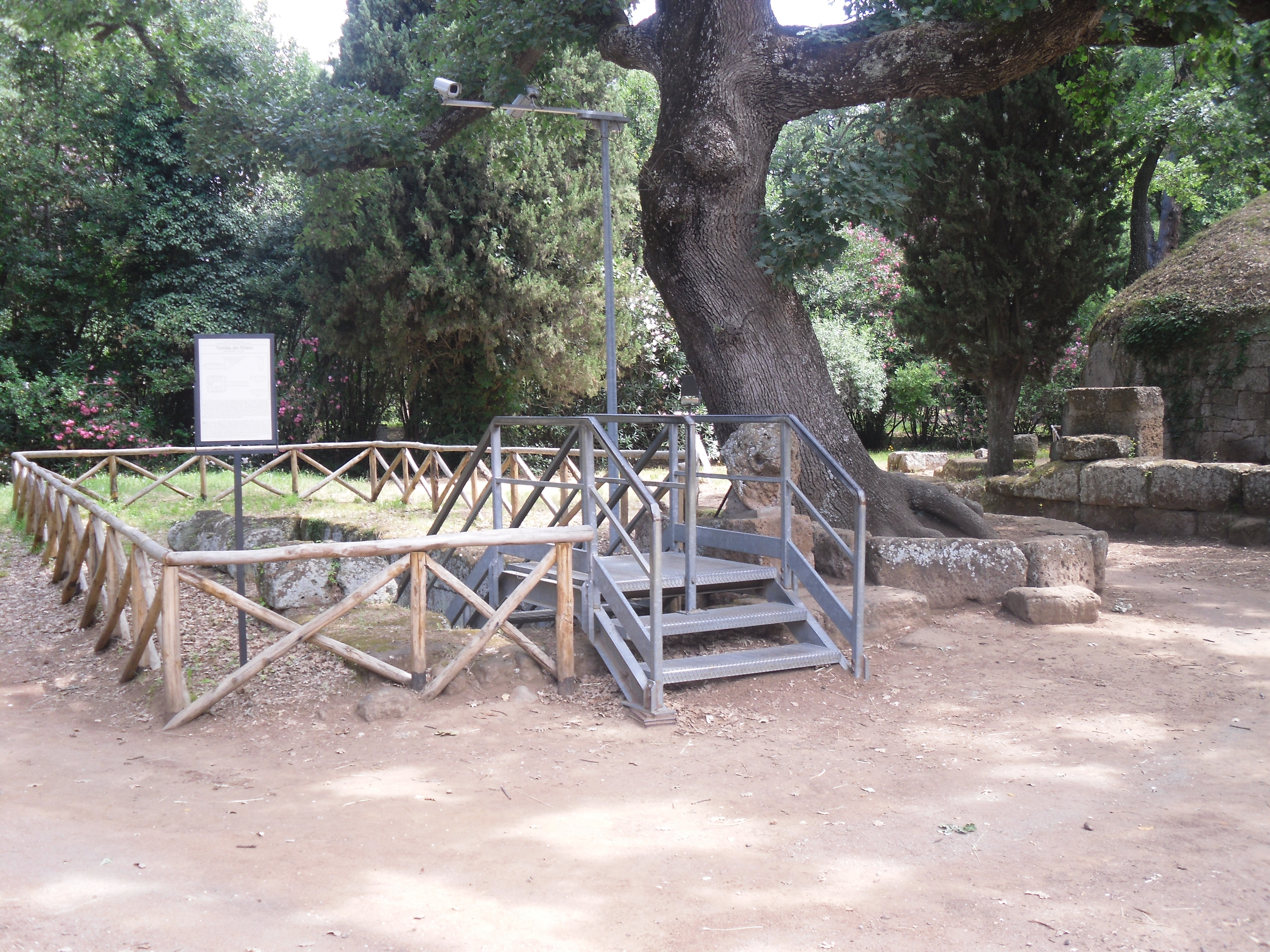 The outside of "Tomba dei rilievi", an ancient Etruscan tomb in the necropolis of Banditaccia